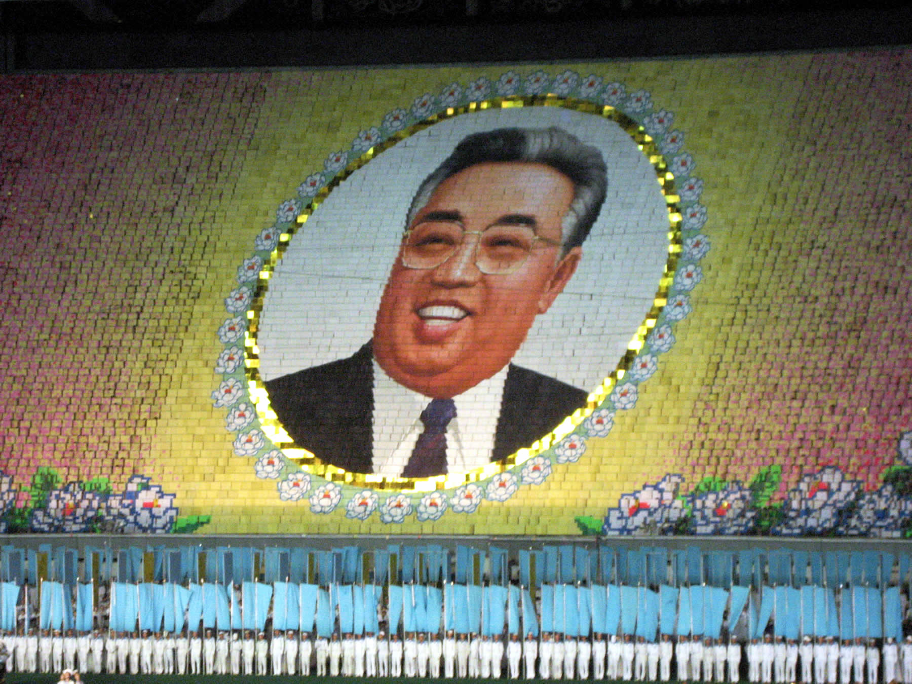 An image of President Kim Il Sung created by thousands of participants in the Arirang Mass Games, Pyongyang.